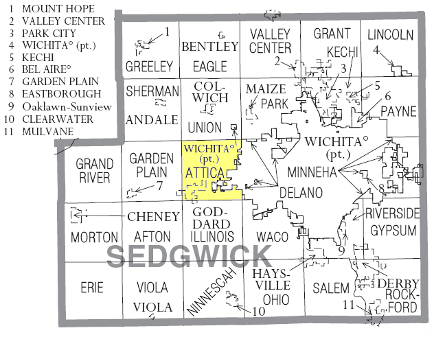 Map of Sedgwick County, Kansas highlighting Attica Township